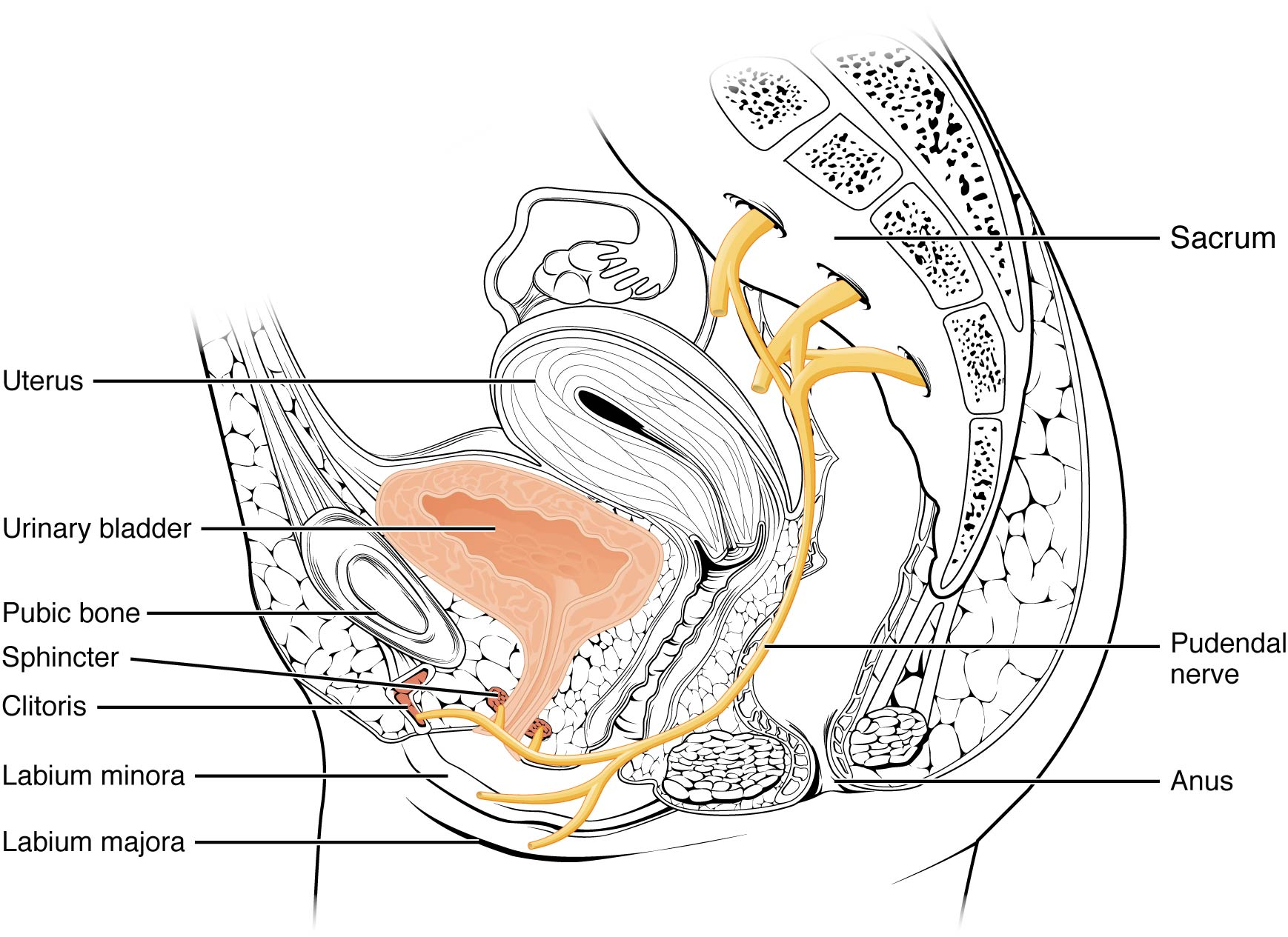 Illustration from Anatomy & Physiology, Connexions Web site. Jun 19, 2013.